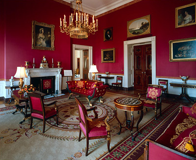 Red Room of the White House. On the left the door opened on the State Dining Room.